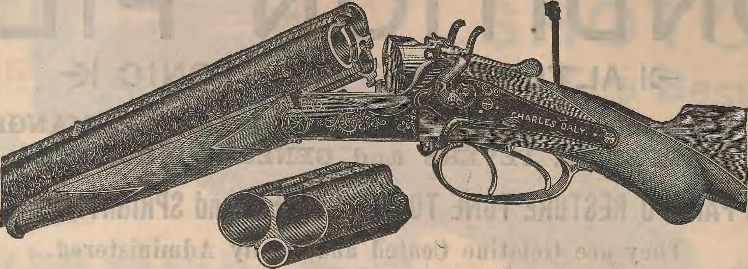 Title: Forest and stream Year: 1873 (1870s) Authors: Subjects: Periodicals Hunting Fishing Outdoor life Sports Publisher: New York, N.Y. : (Forest and Stream Publishing Co.) Text Appearing Before Image: withthe Sergeants Condition Pills. In a few wordsI will say, honestly, that I do not believe theirequal has ever been invented, for I consider thema panacea for every ill to which dog flesh is heir.I have tried them in distemper, in broken clownconstitutions from distemper, in mange, in caseswhen the hair upon the dog was turned wrongside out, fits, and the devil knows what else, andhave found them good every time. I have nevertried them on a mad dog, but have no doubt ifyou could get a fellow to administer them, thatthey would cure him. In time, I would just assoon think of being without dogs as without thePills, and hope never to be without either.Very truly,Wm. C. Kennerly (Old Dominion). NEW YORK AGENTS: VON LENGERKE & DETMOLD. PITTSBURGH AGENT: BOSTON AGENTS: I. H. LONG, 164 High Street, BALTIMORE AGENT: ADAM PAFF. G S. WERSTNER. Dayton, 0., Agents, MAYER & DILLE. POLK MILLER & CO., Druggists, Richmond, Va, 238 FOREST AND STREAM. (Oct. 13, 1887. CHARLES DALY 3-BARREL. Text Appearing After Image: The success of this gun introduced last year has exceeded our expectations. The makers name is a guar-antee of perfection in workmanship and every other desirable quality in a gun. The rifle barrel is rifled ona new system,which gives perfect results. The barrels are put toarether (a difficult thing in a three-barrelgun) with perfect accuracy. IT IS A GREAT CONVENIENCE TO ALWAYS HAVE A KIF1.E WITH YOU. THEEXTRA WEIGHT IS NEXT TO NOTHING. 12-Gauge are made with rifle barrel, .32 W. C. F., .32 Marlin, .38 Marlin, .40 Ballard, .45 GoTernment. Price, 85.0010-Gauge «• «* .38 Marlin, .40 Ballard, .45 Government. ( - 95.00 THE SHOT BARRELS ARE FINE DAMASCUS.